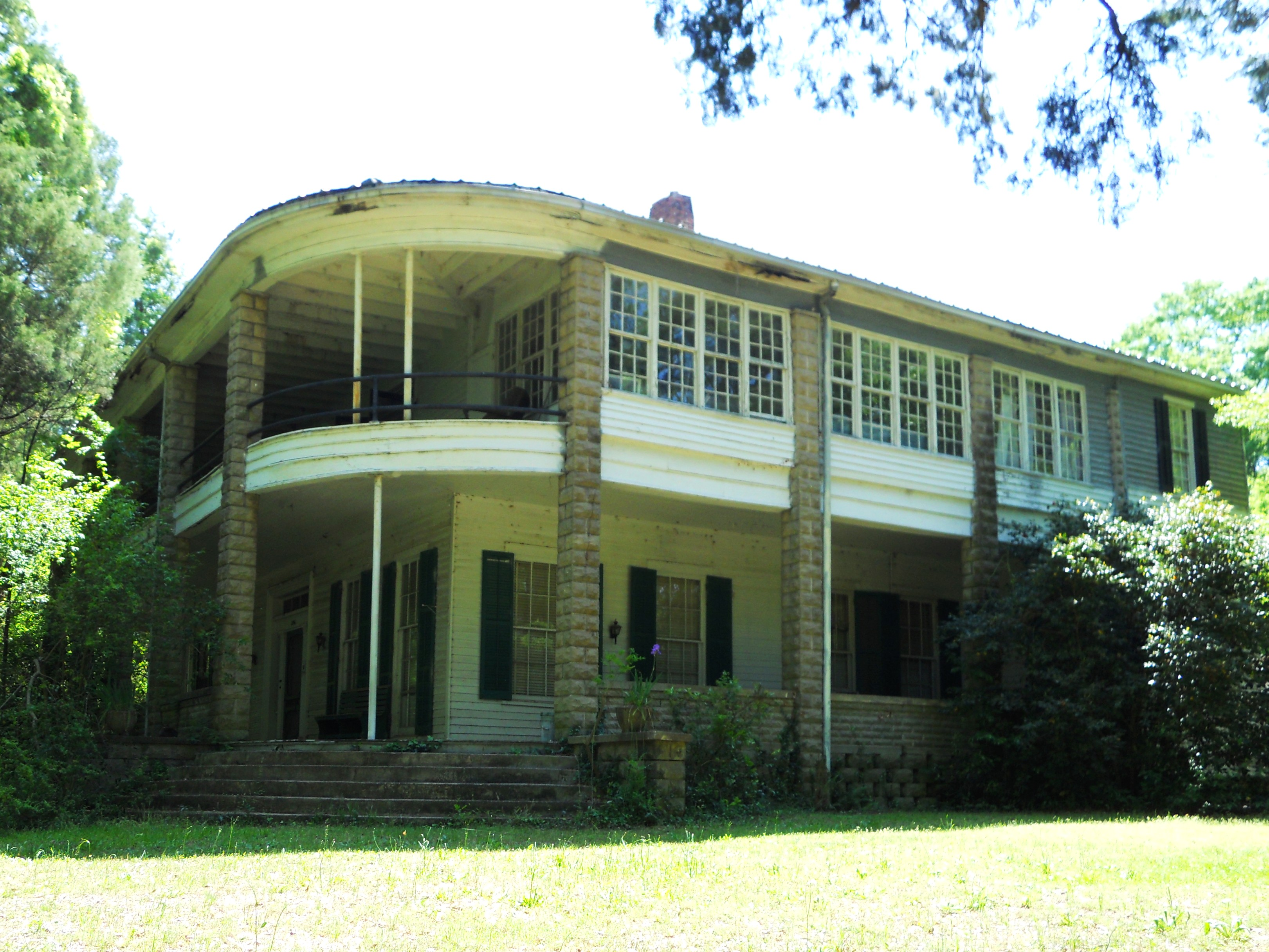 This is a photograph of the Morgan-Curtis House located in Phenix City, AL.